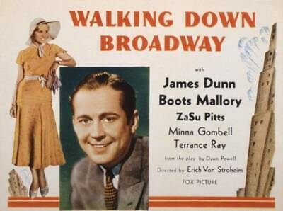 Lobby card for the 1933 film "Walking Down Broadway"